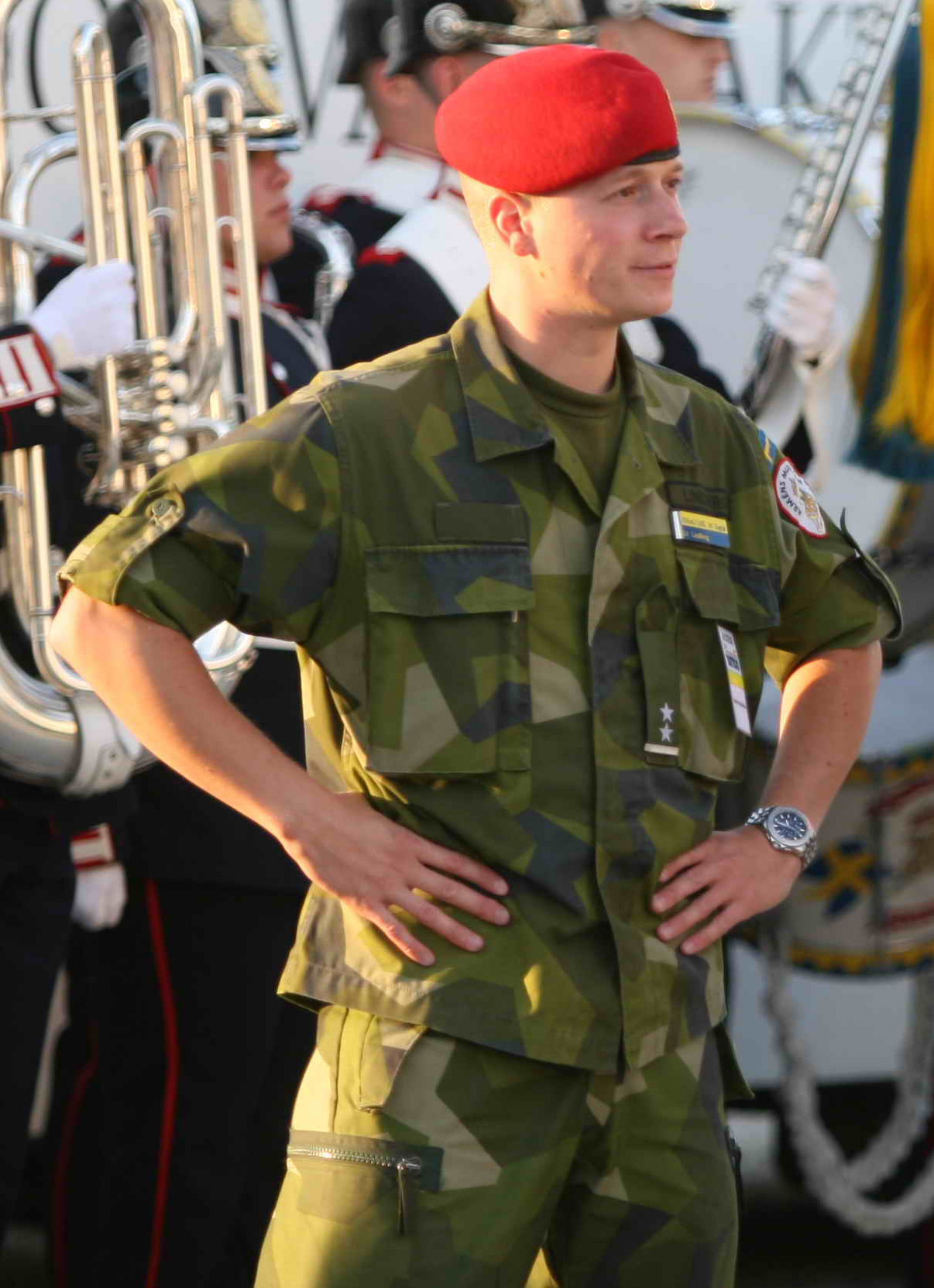 Swedish officer